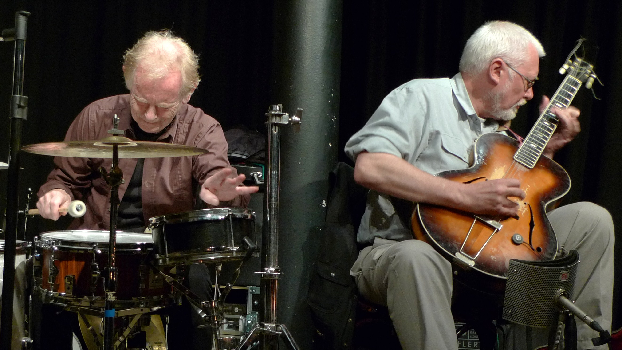 Mopomoso, Sunday 16th May 2010 Tony Marsh ( drums ) John Russell ( guitar )